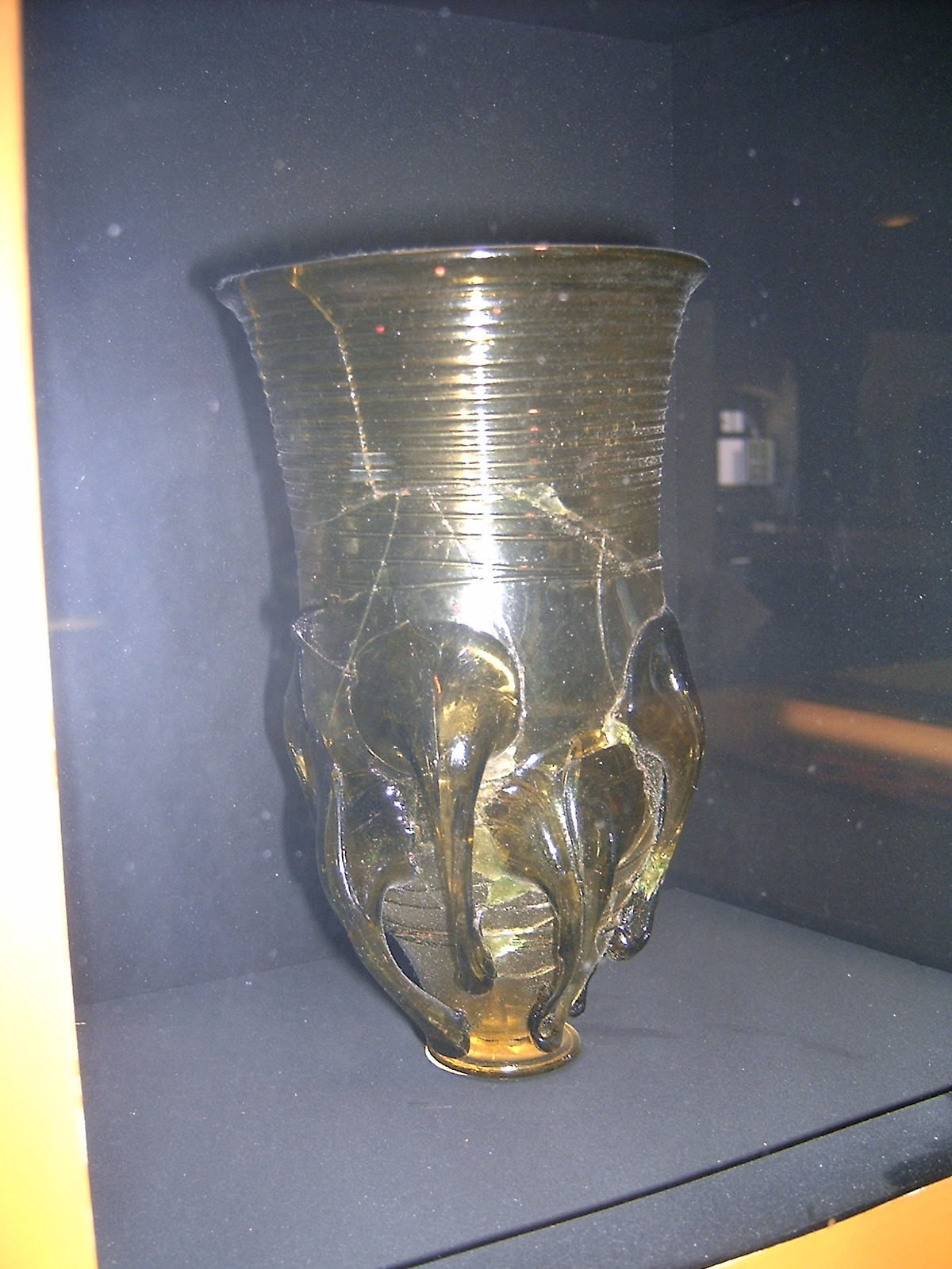 Frankish cwaw beaker 7. century. Found in grave number 507 of the early medieval grave field of Weingarten near Ravensburg, Germany